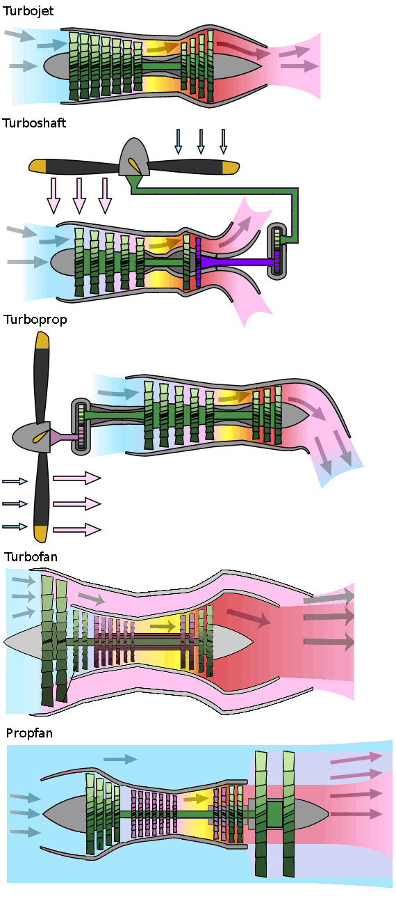 A schematic showing several types of jet engines. Note that the first engine is the only one that only uses jet propulsion; the other ones also transmit some of the generated power from the combustion for use with other propulsion devices (ie propeller, fan, rotor, ...). The schematic was based on the images: (as a basis for the propfan) The list of engine types was chosen based on a schematic in the book "Lucht en ruimtevaart" by Hugh Johnstone. A turbojet develops a propulsionary force simply because of the thrust beam. Turbofans add a fan to this, making them more efficient. Turboprops are quite similar to turbofans, yet use a propeller and a mechanical transfer system. Maximum speed is 800km/h. Propfans have propellers with bent blades, hereby being able to generate a speed up to 1000 km/h.